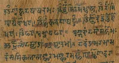 Birch-bark manuscript. 62 folios. Date not known, probably 17th or en:18th century AD. Sanskrit, in Sharada script. Three paddhatis on Kashmiri Shaivite rituals.